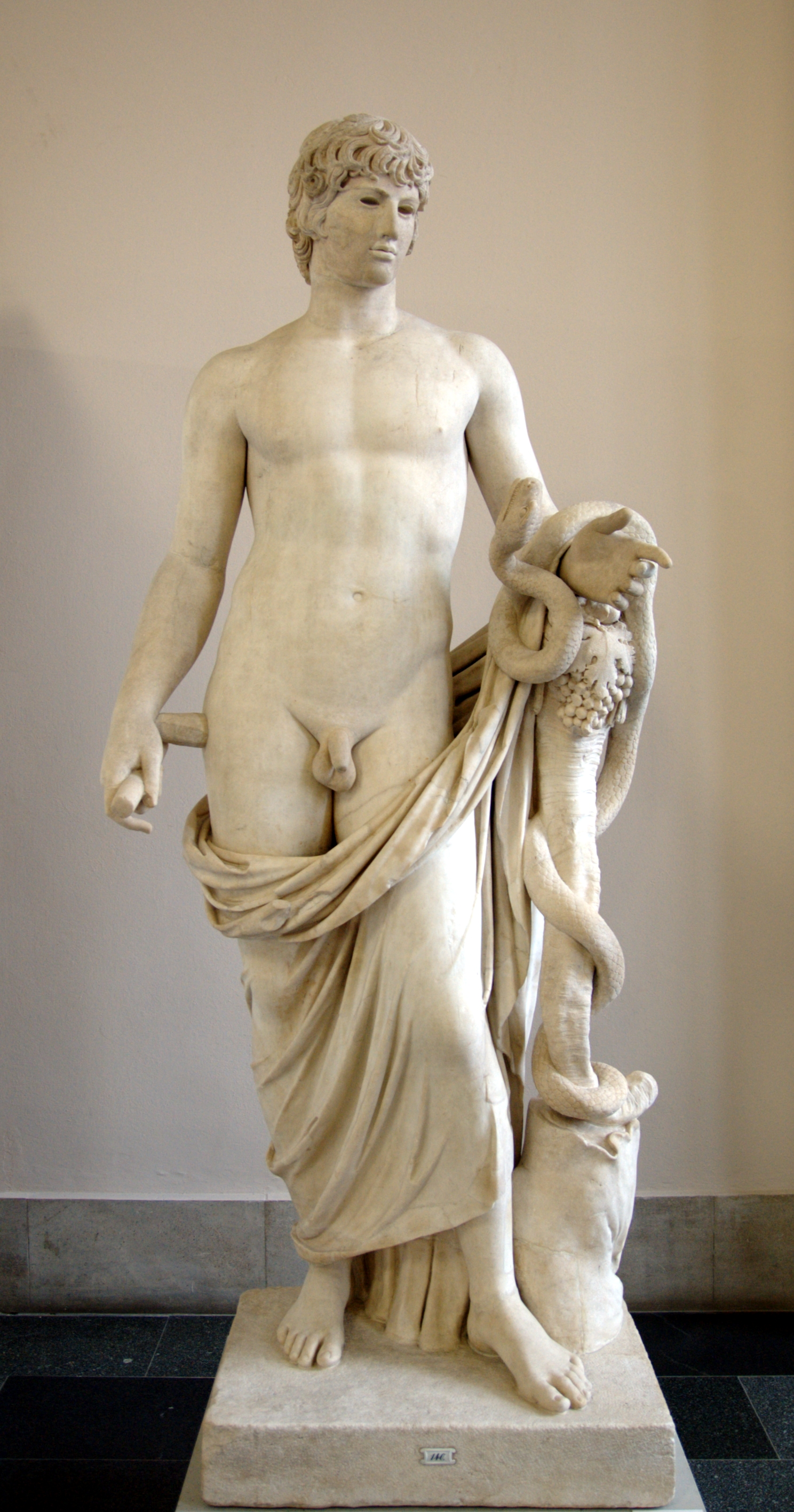 Antinous as Agathodemon. Headless marble statue completed with an Antinous' head, 130–138 CE.